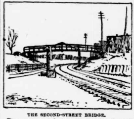 Drawing of the 2nd Street Bridge over Baltimore and Ohio Railroad in Washington, DC in 1890 published in the Evening Star.